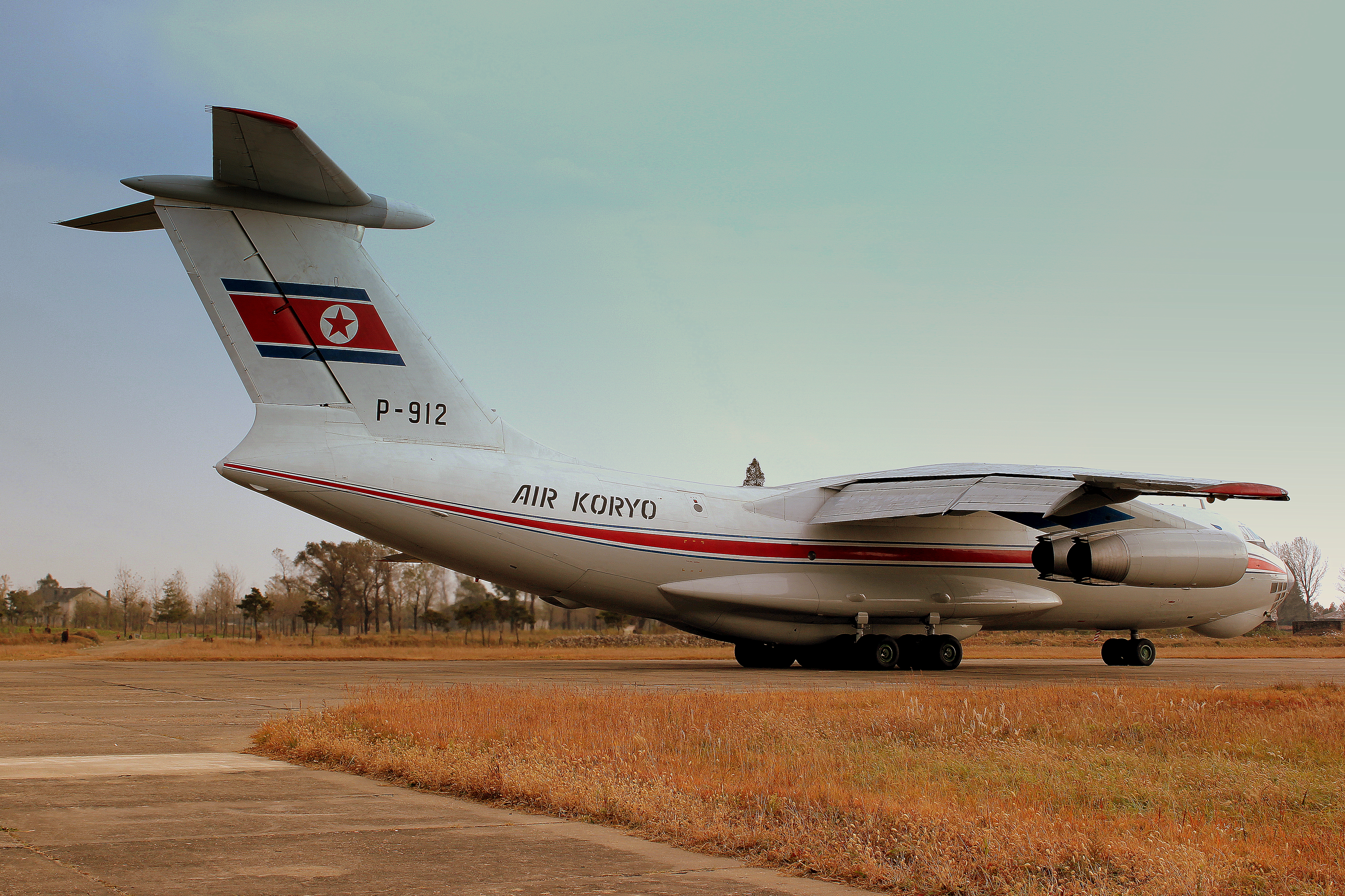 AIR KORYO IL76 FLIGHT P912 AT SONDOK HAMHUNG AIRPORT ABOUT TO DEPART FOR PONYGYANG SUNAN DPR KOREA OCT 2012